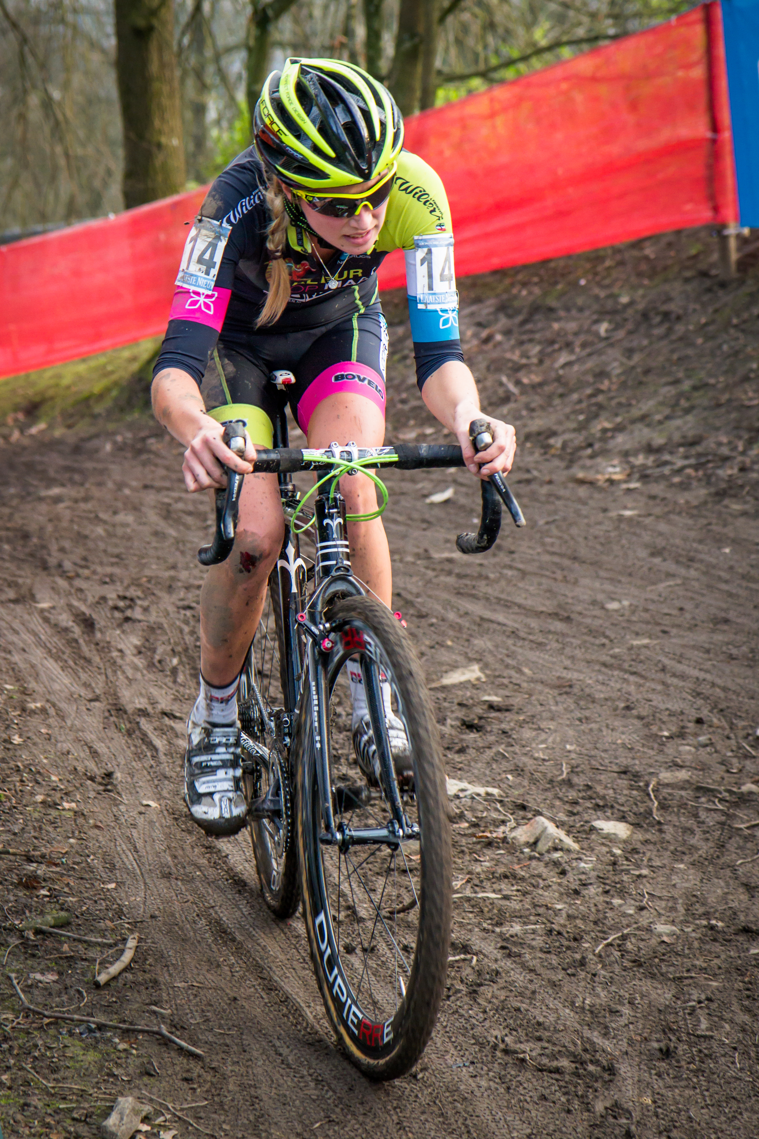 Femke Van Den Driessche (BEL) of Kleur Op Maat/Corpellets/Sortimo. UCI Cyclocross World Cup, Namur, 2015.